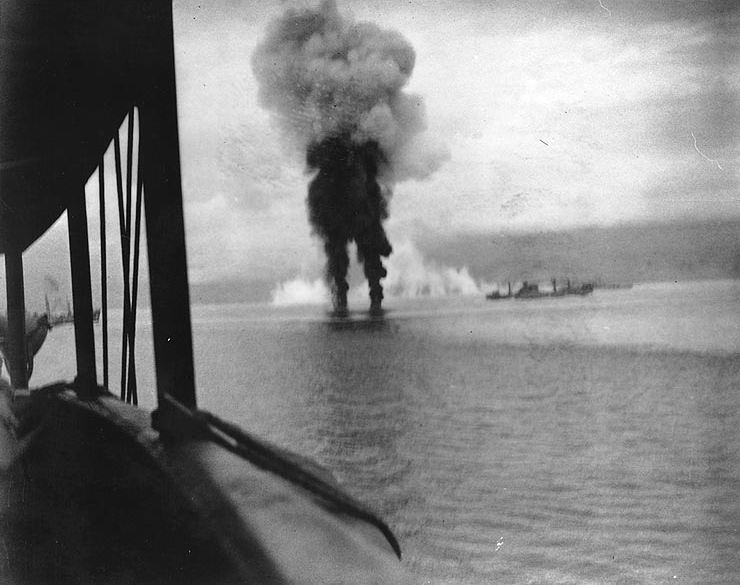 Smoke rises from two Japanese planes shot down during the Naval Battle of Guadalcanal, 12 November 1942. Photographed from USS President Adams (AP-38); ship at right is USS Betelgeuse (AK-28).